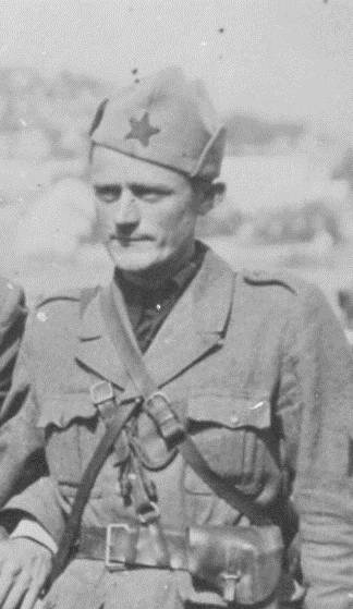 Božo Bilić